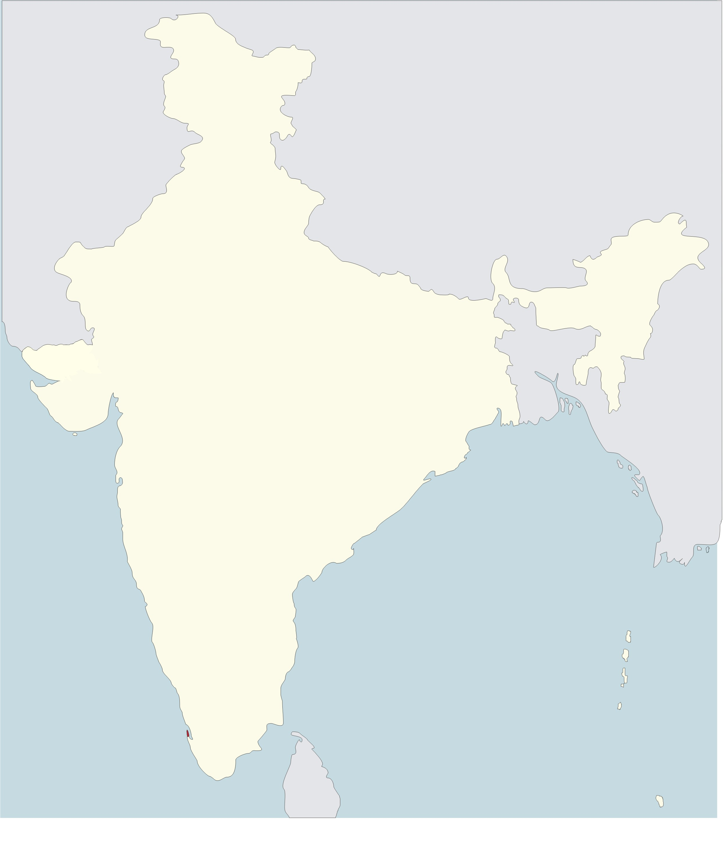 Map of the Roman Catholic Diocese of Cochin in India